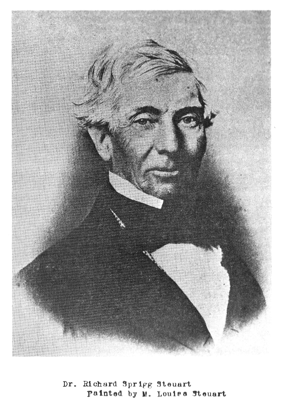 painting of Richard Sprigg Steuart